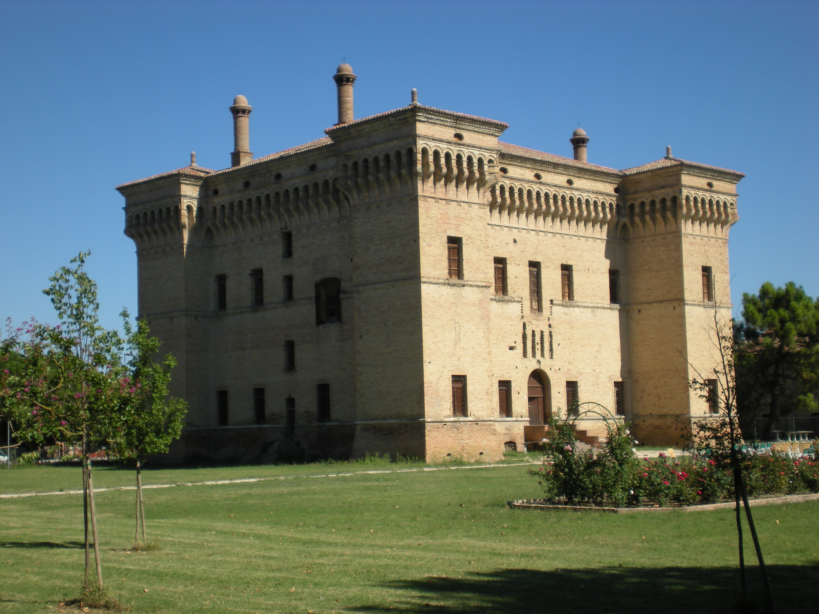 Palazzo Grossi- Rasponi in Castiglione di Ravenna